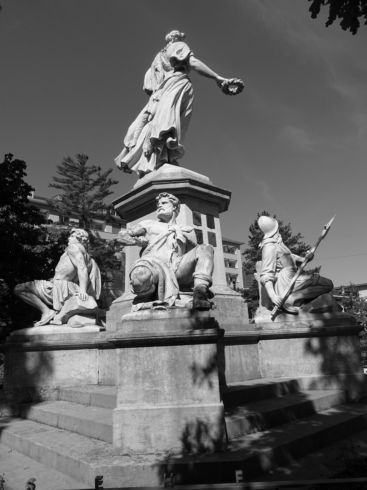 Das Krieger Denkmal aus Marmor erinnert an die Niederlage der eidg. Krieger am 26. August 1444 in der Schlacht von St. Jakob an der Birs. In dieser blutigen Auseinandersetzung starben 1300 Krieger der Eidgenossenschaft und 2000 Krieger des franz. Heeres. Einweihung 1872, Restauriert 2010